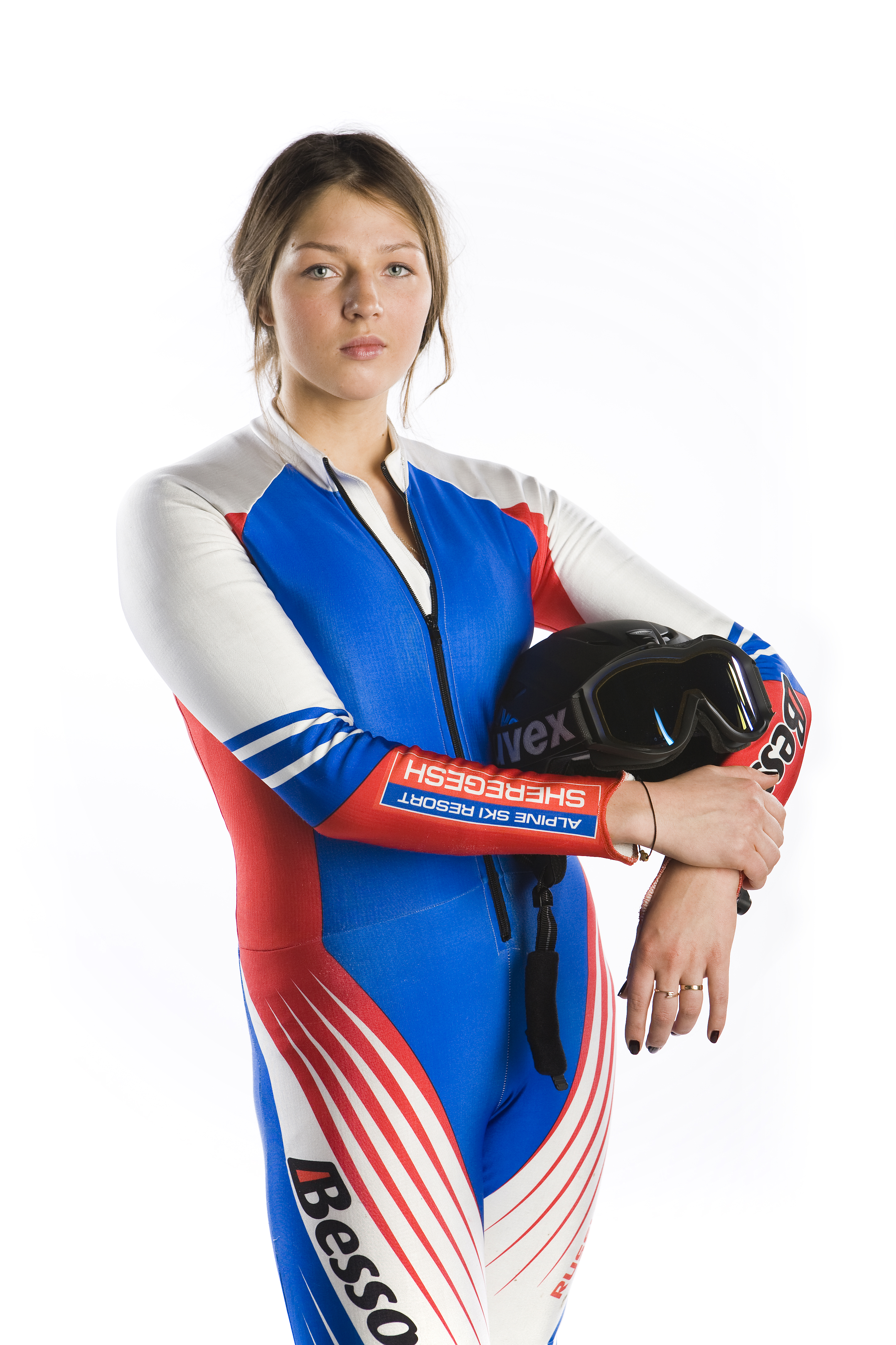 Alena Zavarzina, Russian snowboarder.